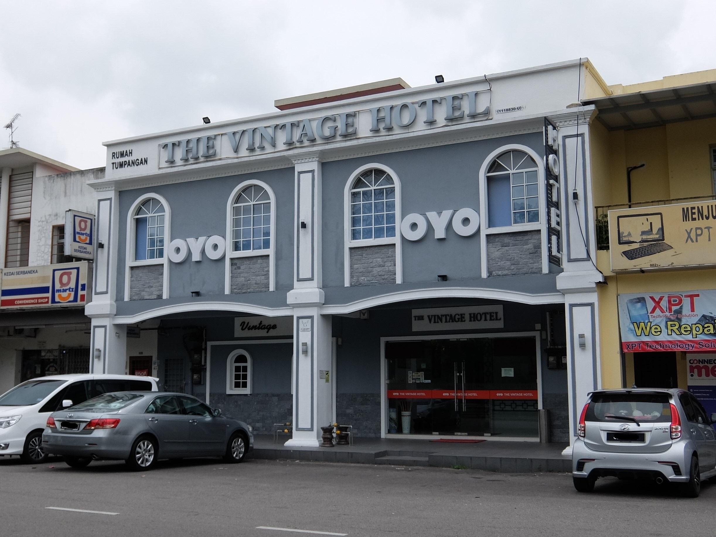 The Vintage Hotel, Taman Nusantara, Gelang Patah, Iskandar Puteri, Johor Bahru, Johor, Malaysia